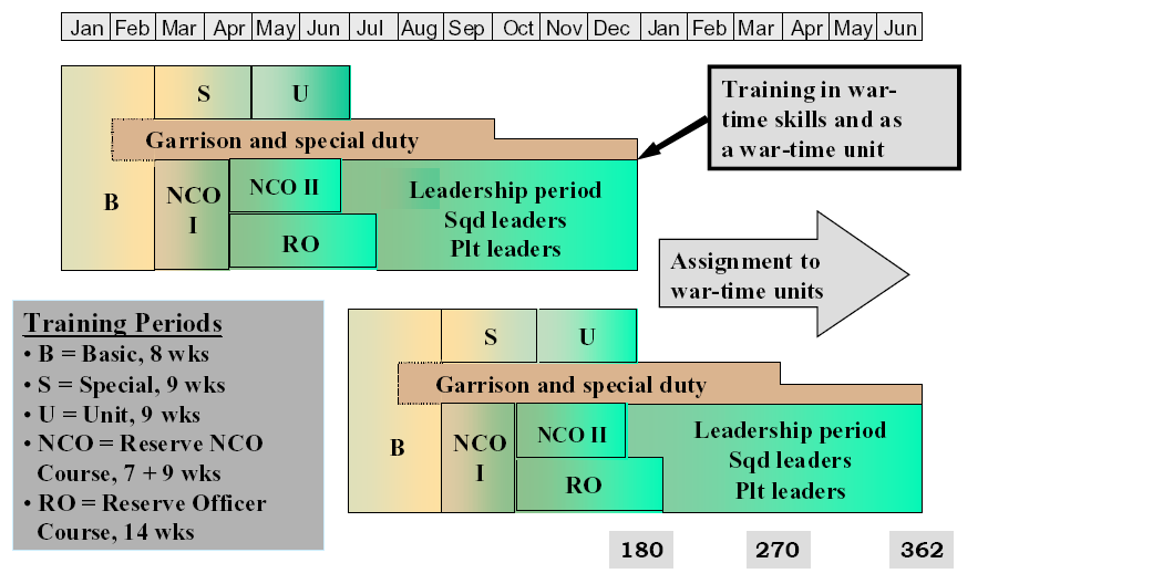 A figure illustrating the organization of the Finnish conscription. The conscripts are inducted twice a year. After two months of basic training, they are sent for branch-specific enlisted training, or to reserve NCO school. The enlisted receive two months of basic branch-specific training and two months of training as a combined-arms organization, in full war-time formation. After six months, most enlisted are discharged and placed into a war-time military unit. Some enlisted with special training keep serving until they have served either nine or 12 months. While the enlisted receive their branch-specific training, the NCO course has its first period. During this time, a portion of the conscripts are selected for reserve officer training. After 3½ or 5½ months of training in leadership and branch specific skills, the new NCOs and officer cadets return to their units, to train with their enlisted men. Ultimately, they are discharged with the enlisted of the next induction group. Like their men, they receive a position in the war-time unit with which they trained during their last 4 months of service.